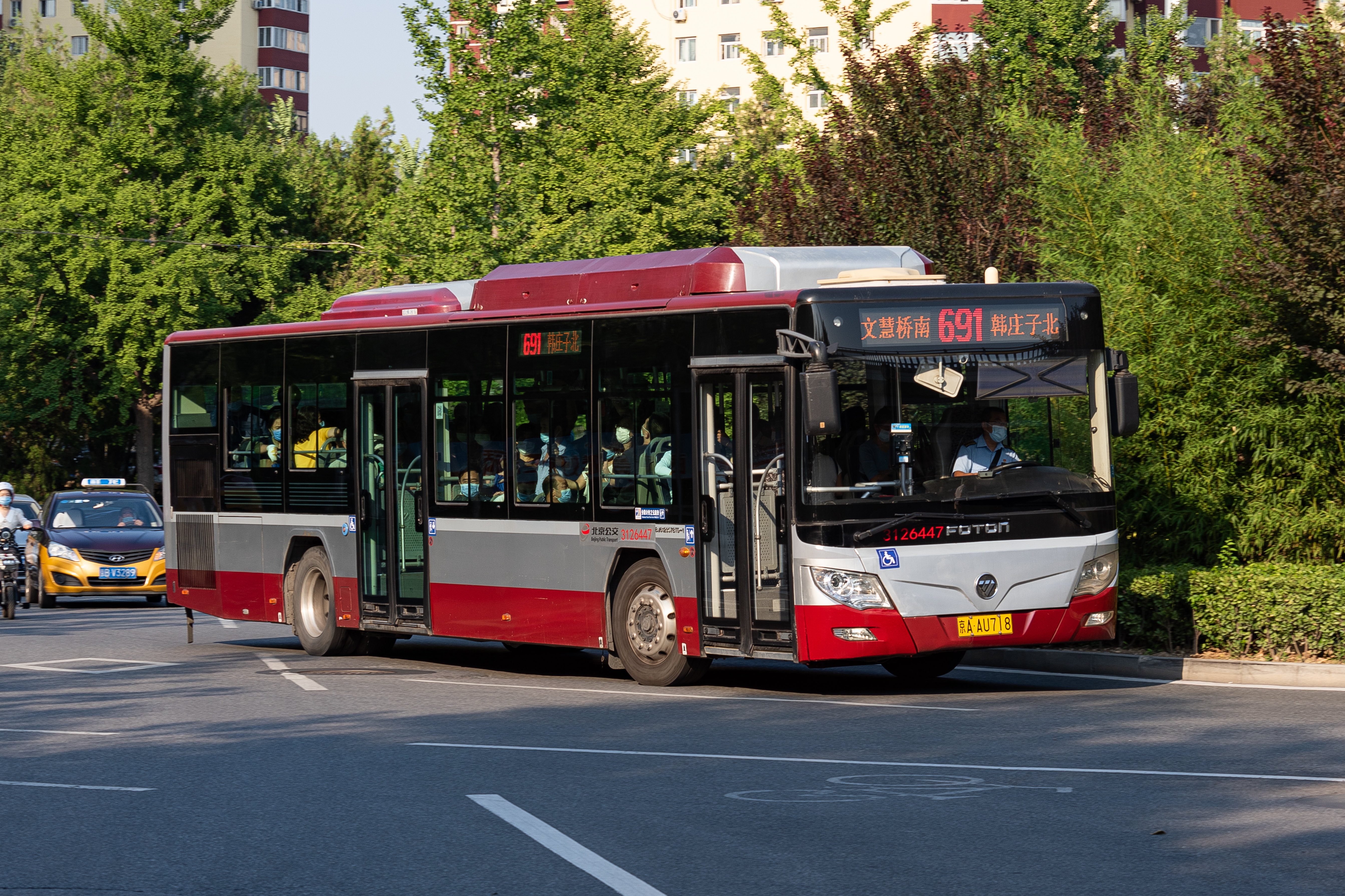 26447 "City of Taiyuan", confirmed on route 691! All at once today.